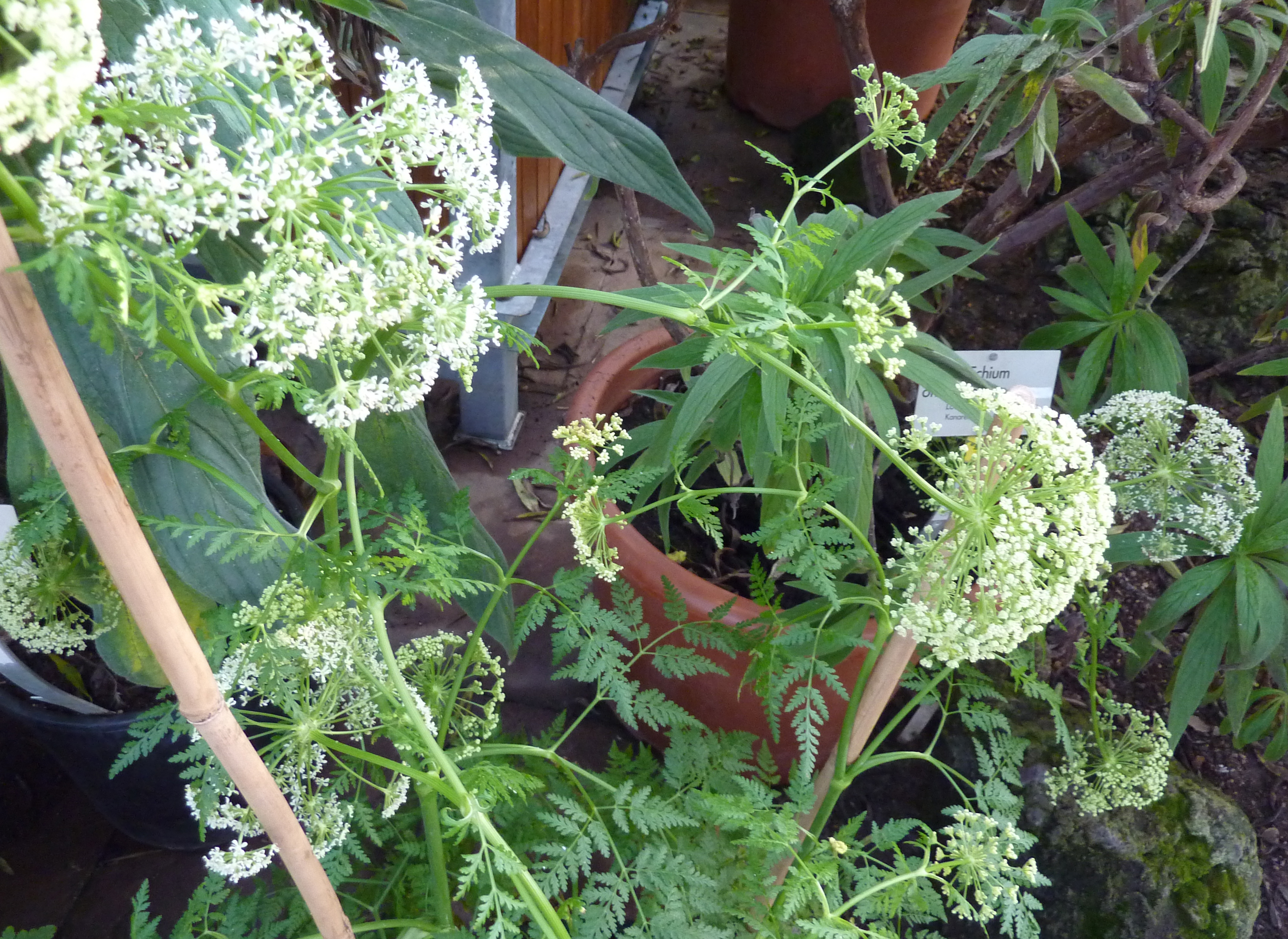 Tinguarra montana in the Berlin Botanical Garden